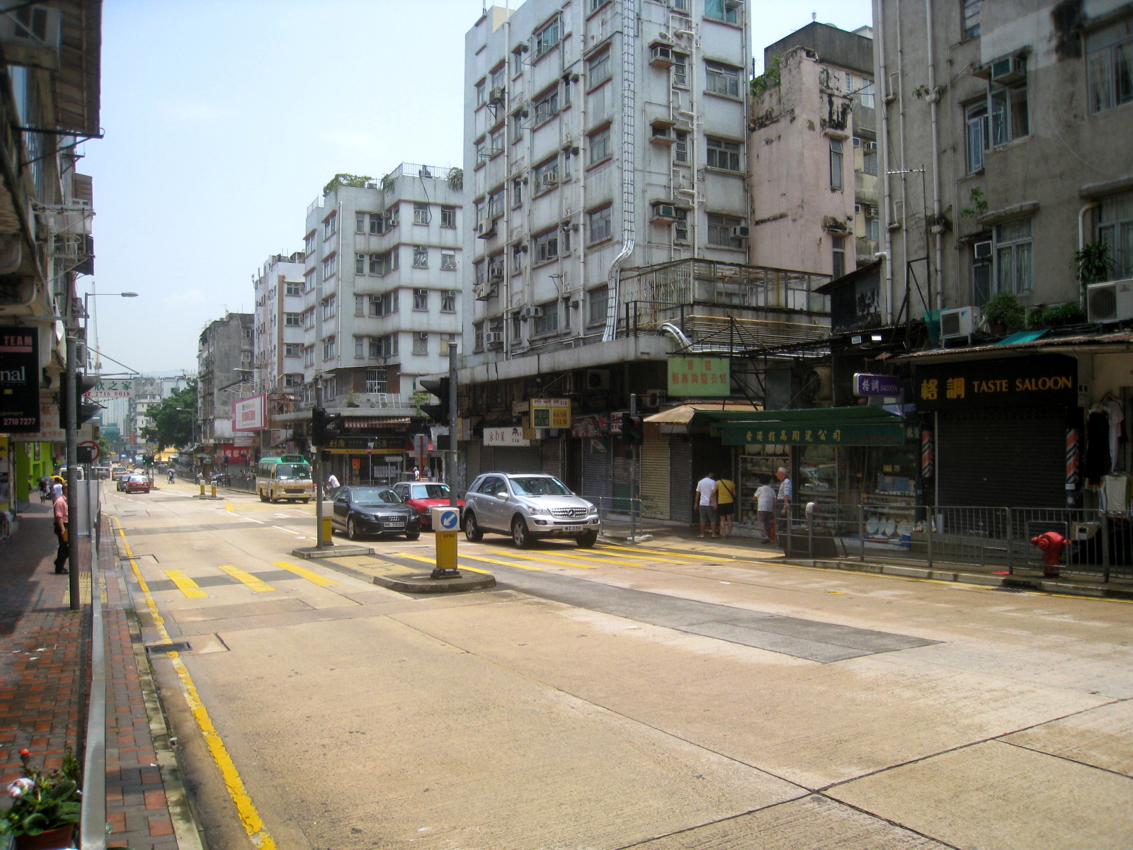 Carpenter Road 賈炳達道